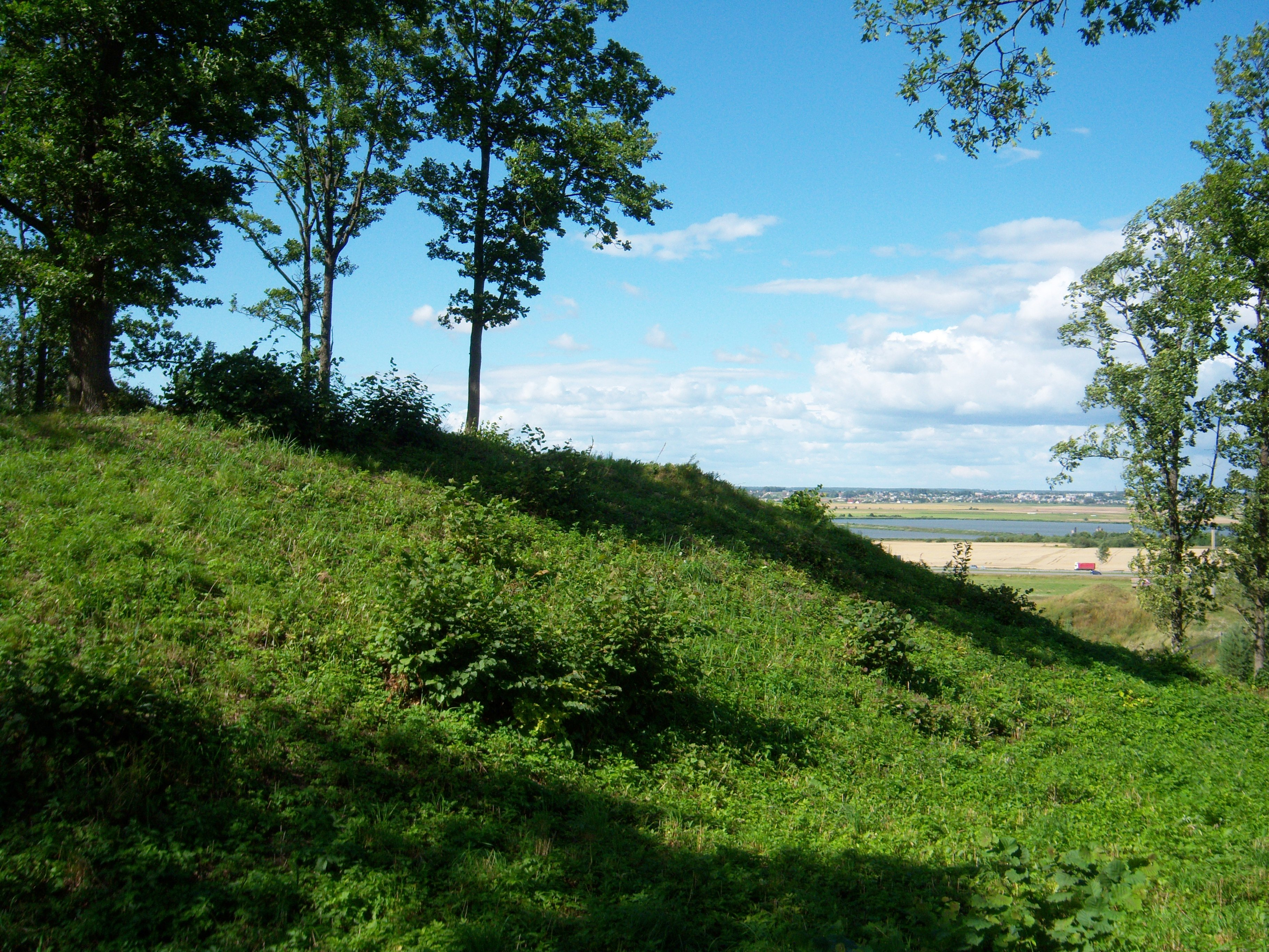 Kalnujai (Palendriai) Hillfort, Raseiniai District, Lithuania